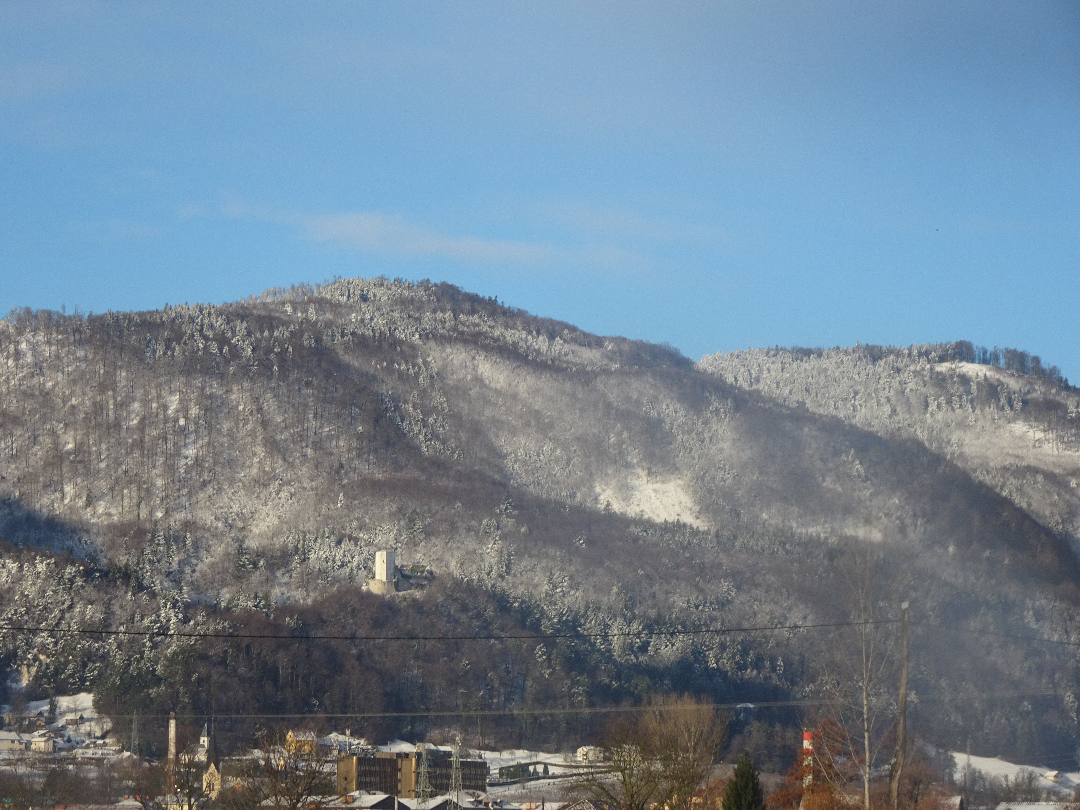 Konjice Mountain (Konjiška gora)